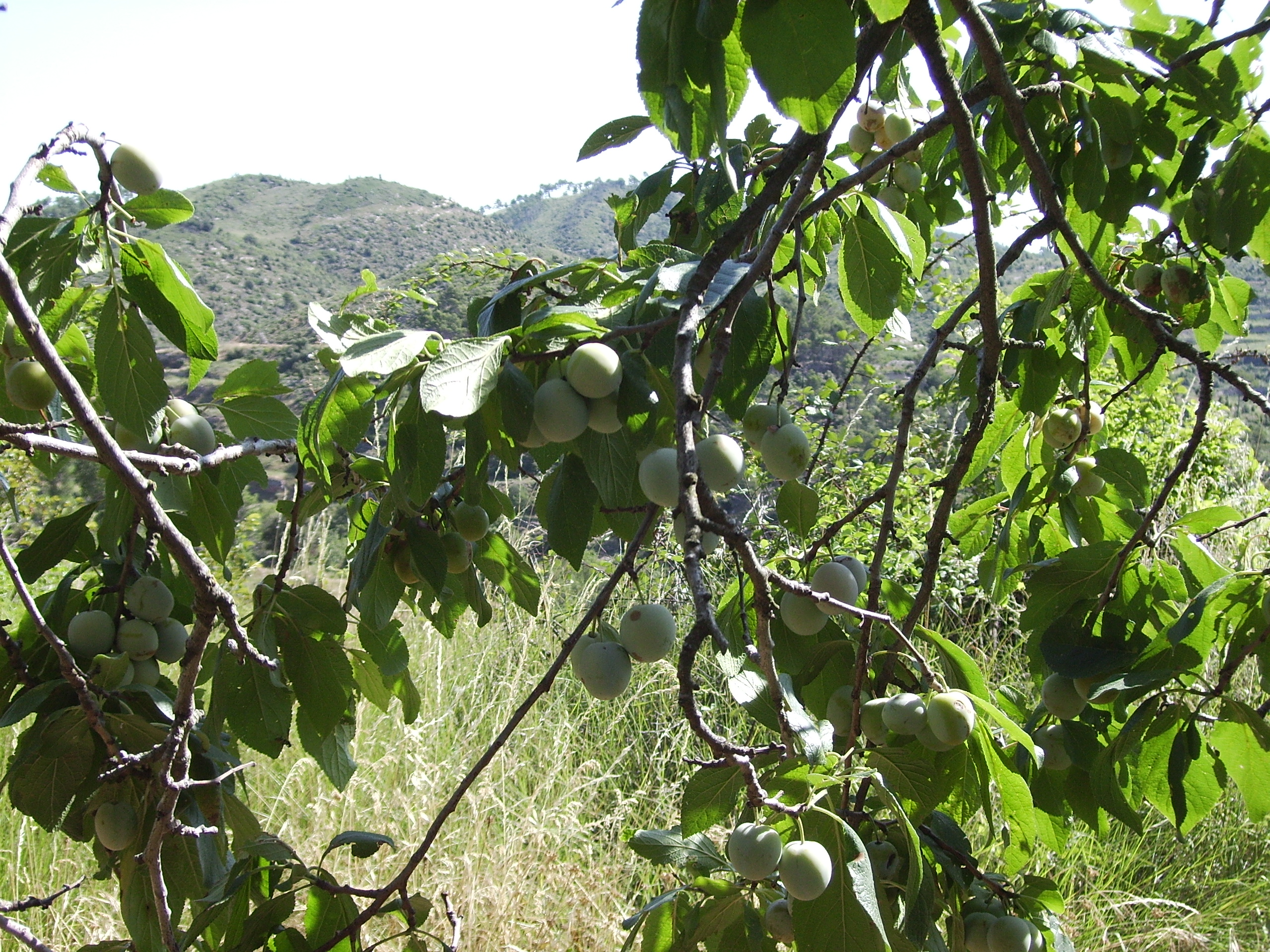 Image:Prunus domestica_21_juliol_06_002.jpg Prunus domestica, var Green Claudia.Inmature fruits in july in Serra de Castelltallat,Catalonia My own work, july, 21 2006